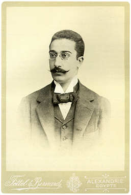 Portrait of Cavafy (1863-1933) taken around 1900.